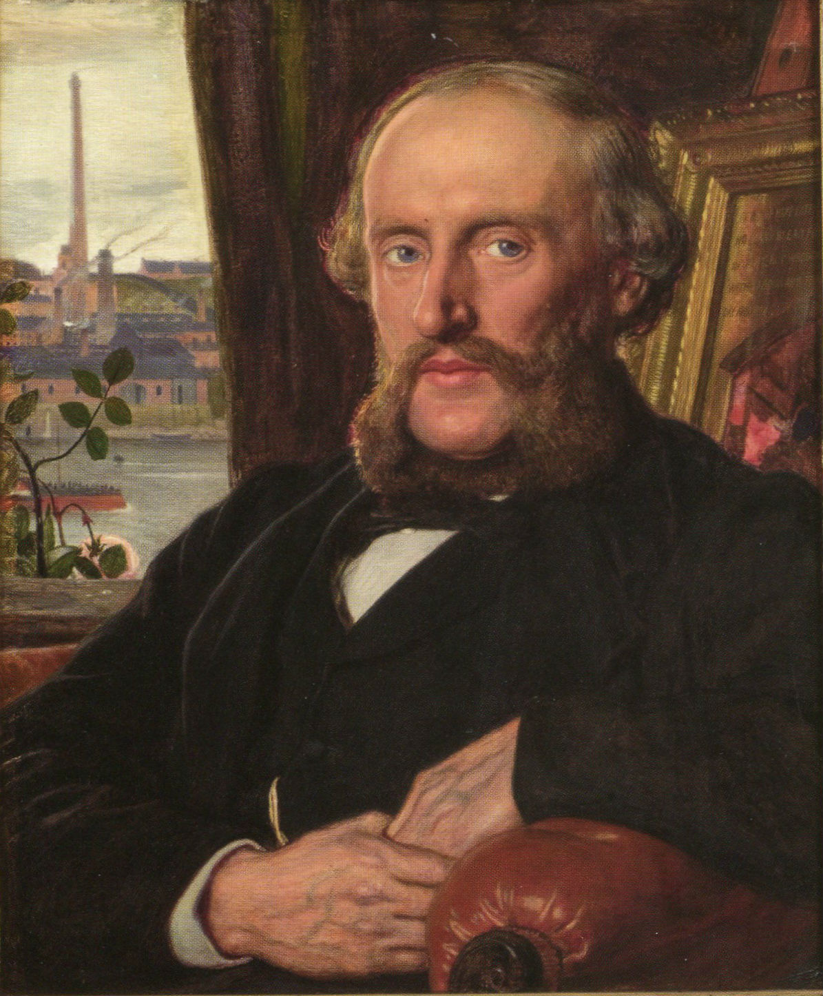 Portrait by Ford Madox Brown